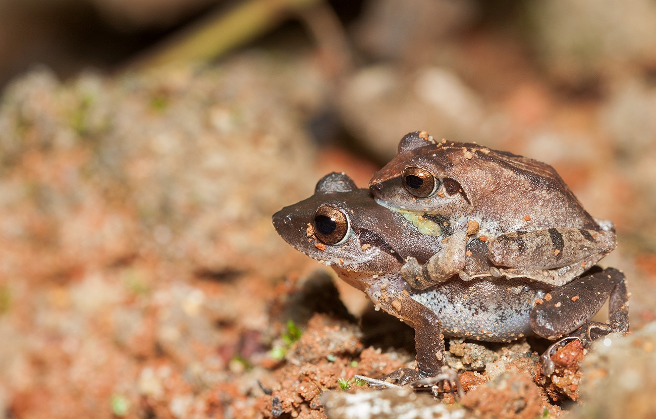 There were lots of Amboli bush frogs in the area we stayed in Agumbe. We were surrounded by loud calls.. But spotting them is a different story.. We found 3 pairs of Amboli bush frogs in amplexus. All of them were found on the ground. The calling males were perched on leaves. 1 male was slowly approaching this pair in amplexus. I found 1 male just observing another pair in amplexus from 3 inches away. He never made a move. Their agreement seemed to work ;-D The female would occasionally move with the male on its back. But nothing much happened that night.